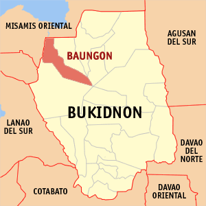 Map of the Bukidnon showing the location of Baungon